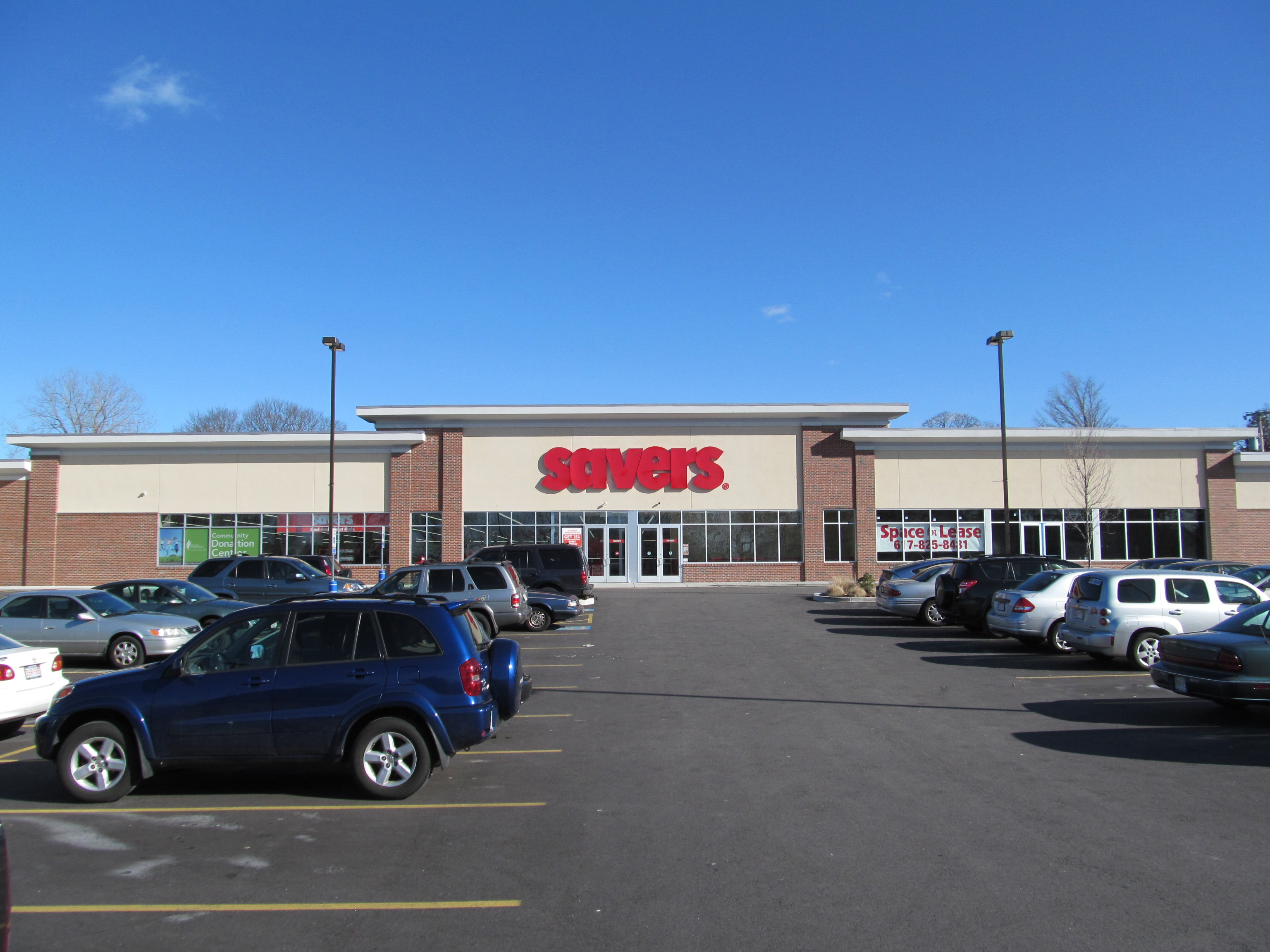 Savers, West Roxbury Massachusetts